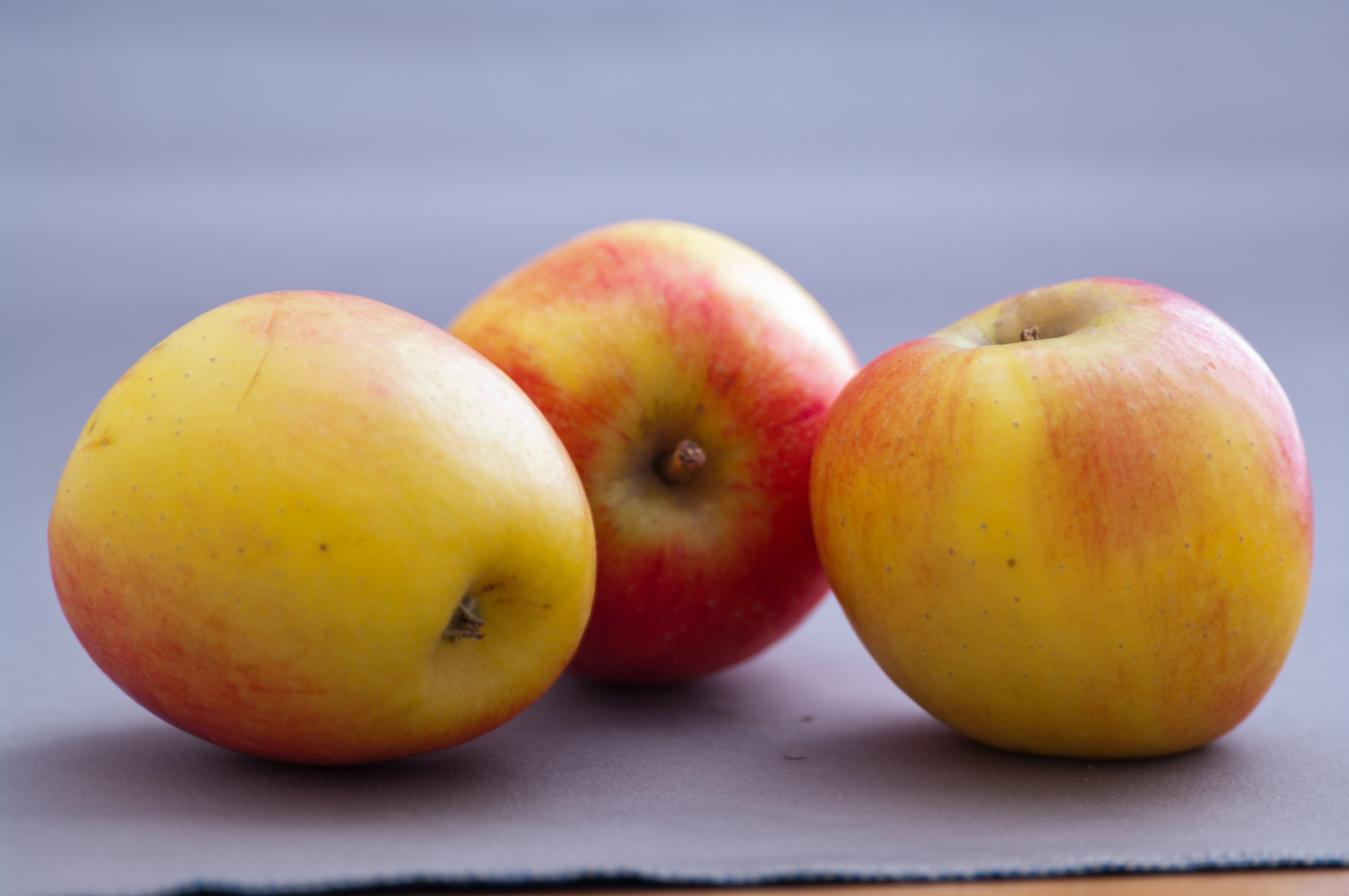 Sciresh apples